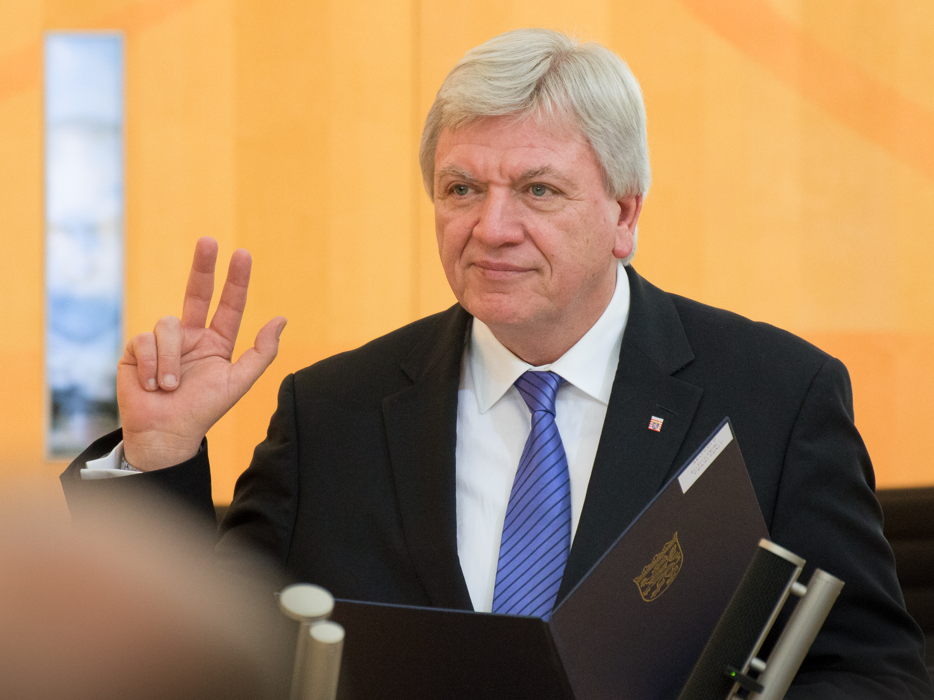 Volker Bouffier during his adjuration as Minister-President of Hesse in January 2014